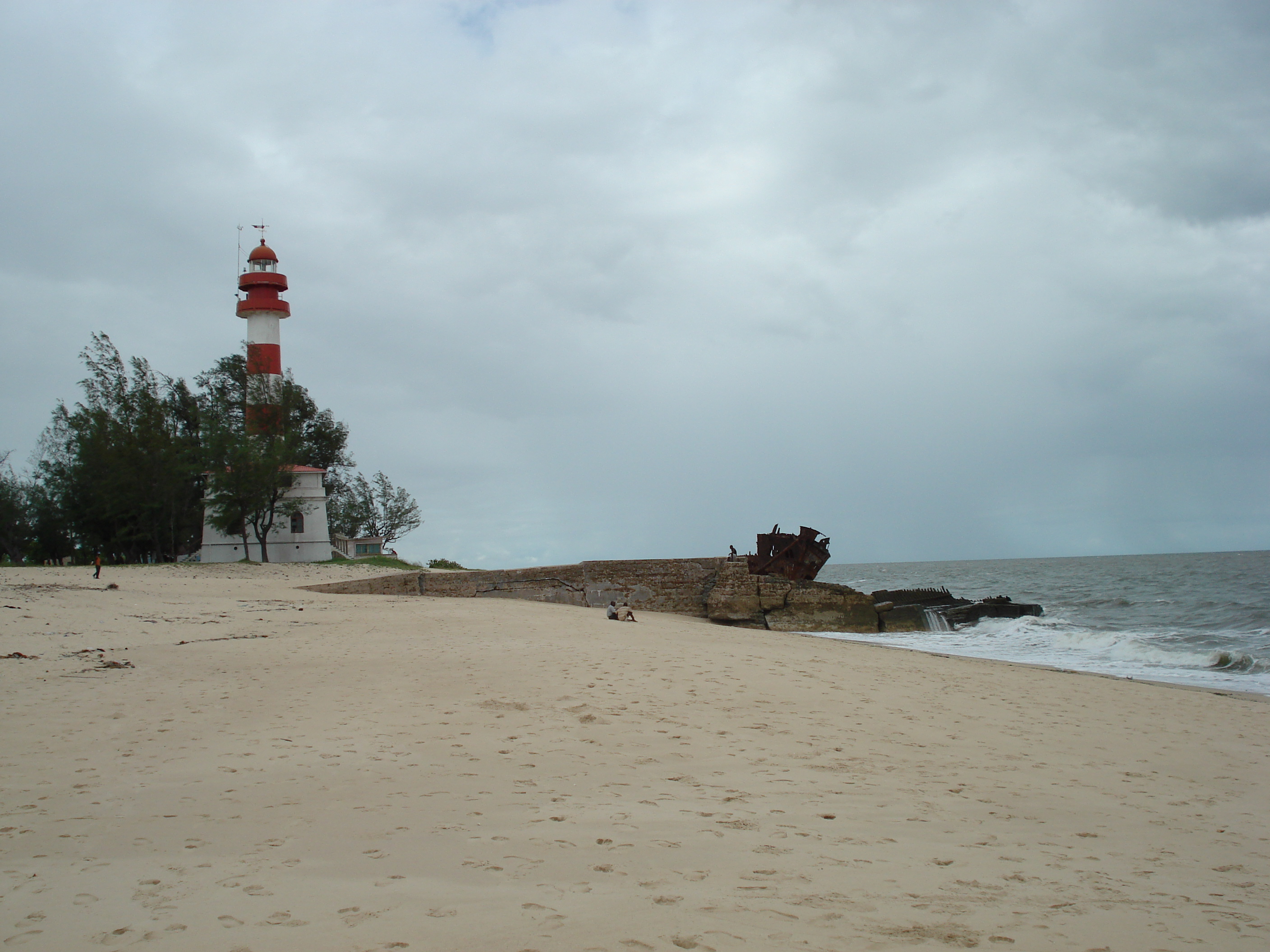 lighthouse